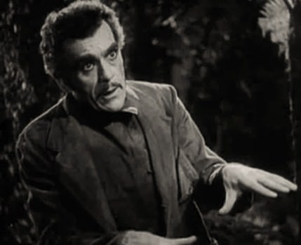 Boris Karloff in The Invisible Ray - trailer (cropped screenshot)